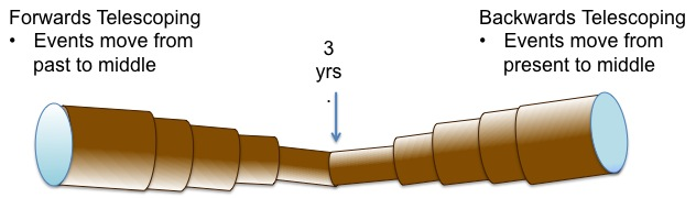 telescoping model